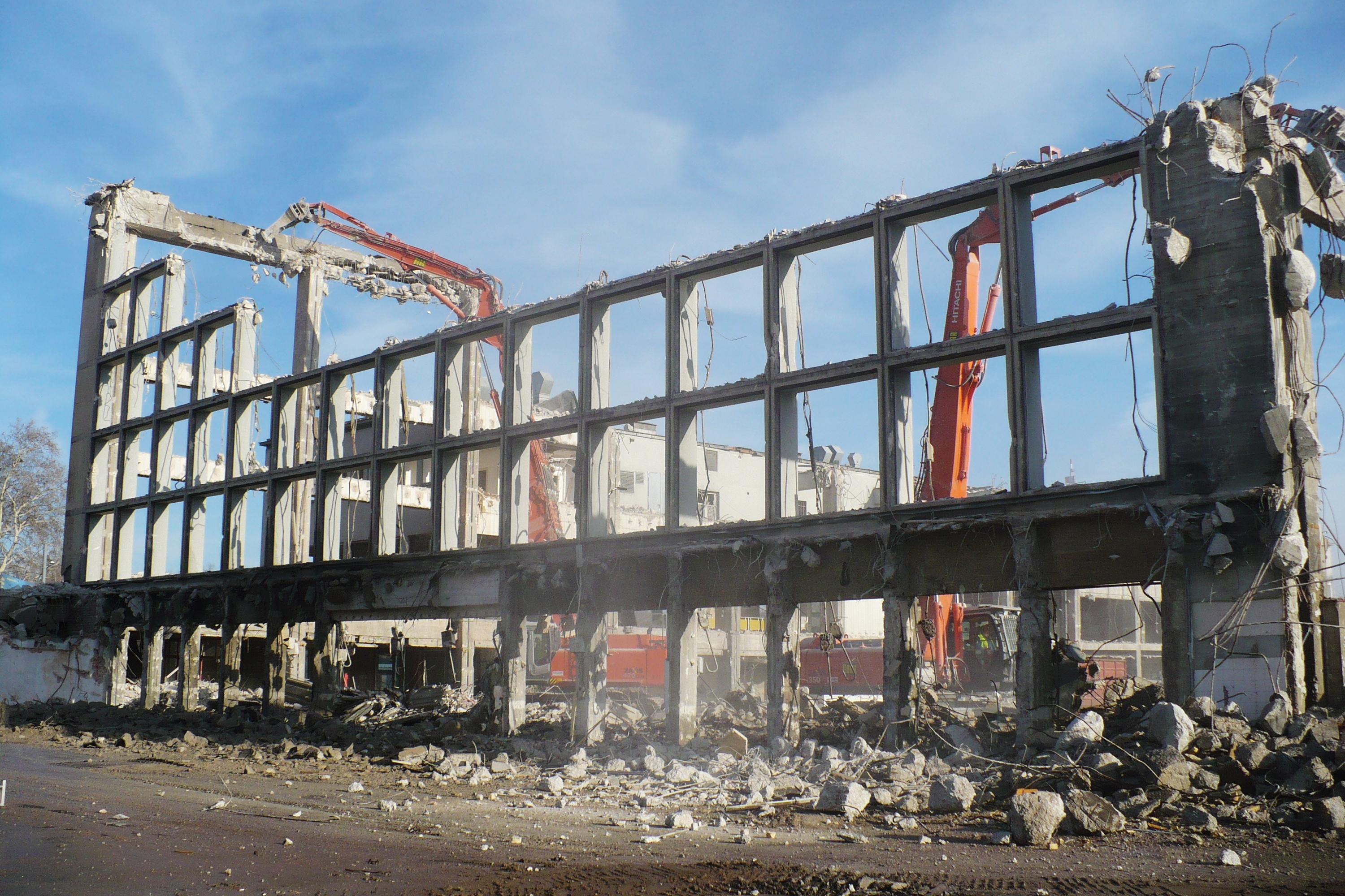 Last remainders of the station building's front side on the Wiedner Gürtel.